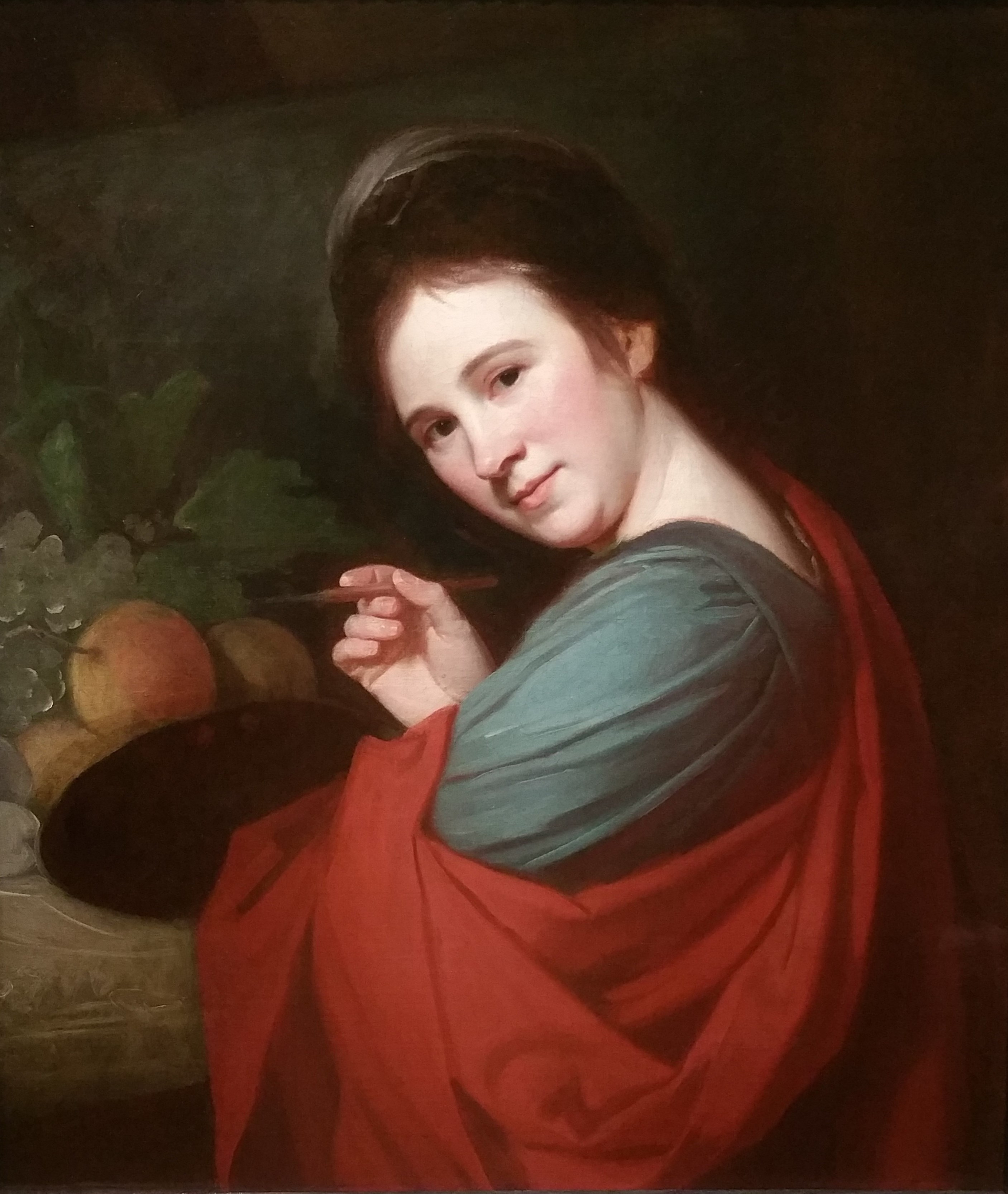 Mary Moser (1744 - 1819), a painter and a founding member of the Royal Academy, Painted by George Romney, oil on canvas, c. 1770-71. Acquired in 2003 by the National Portrait Gallery, London.